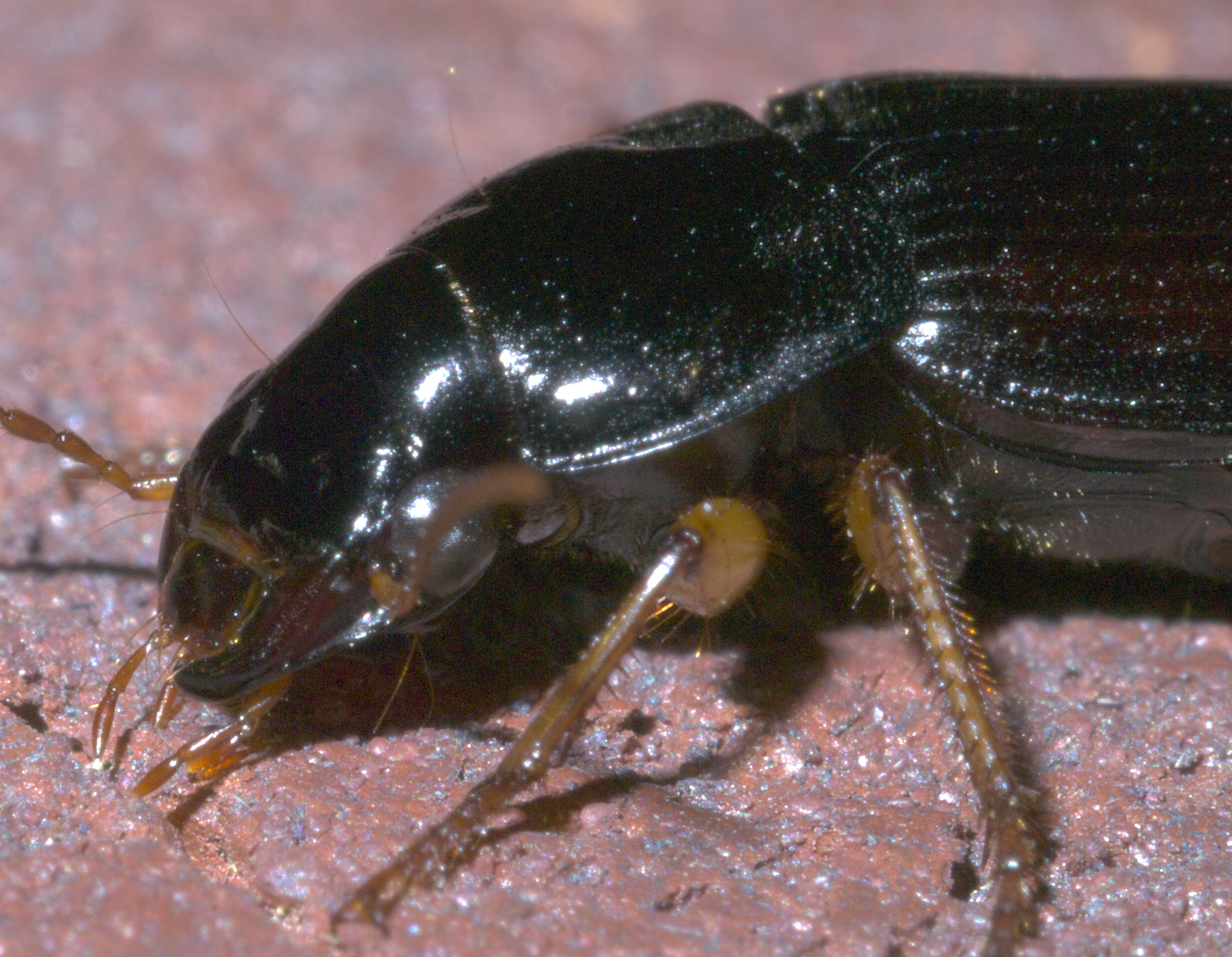 Harpalus, Family: Ground Beetles, ID Confidence: 90